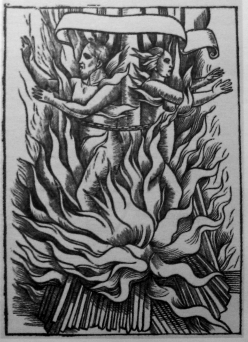 Martyrdom of Alexander Gouch and Drivers wife, 1558